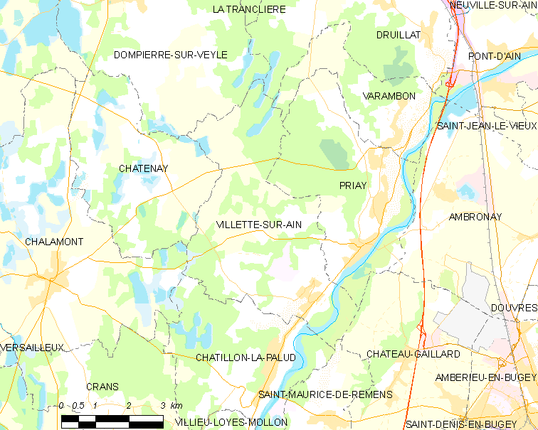 Map of French commune: Villette-sur-Ain Map commune FR insee code 01449.png